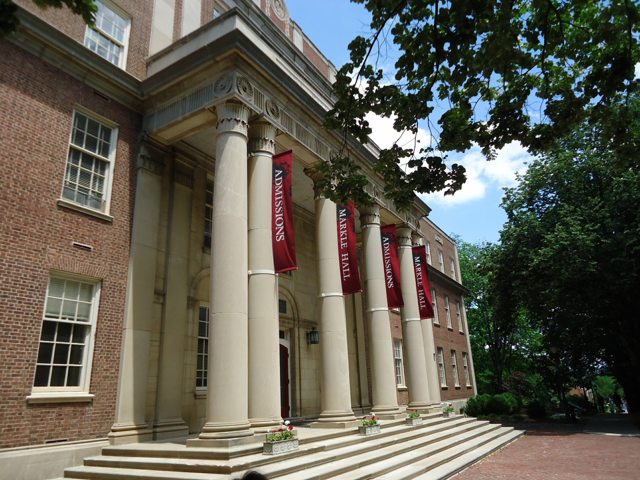 A photo from a campus tour of Lafayette College in Easton, Pennsylvania, on May 31, 2012 (correct date; 2011-06-01 is incorrect).